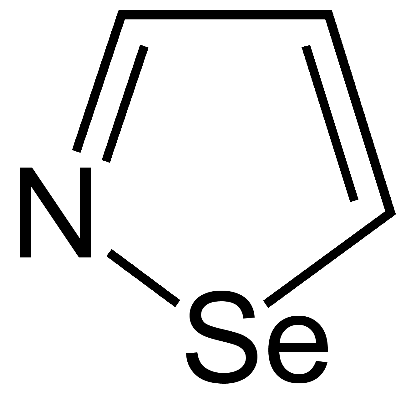 Isoselenazole_Structural_Formulae